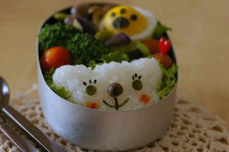 A Kyaraben depicting a polar bear